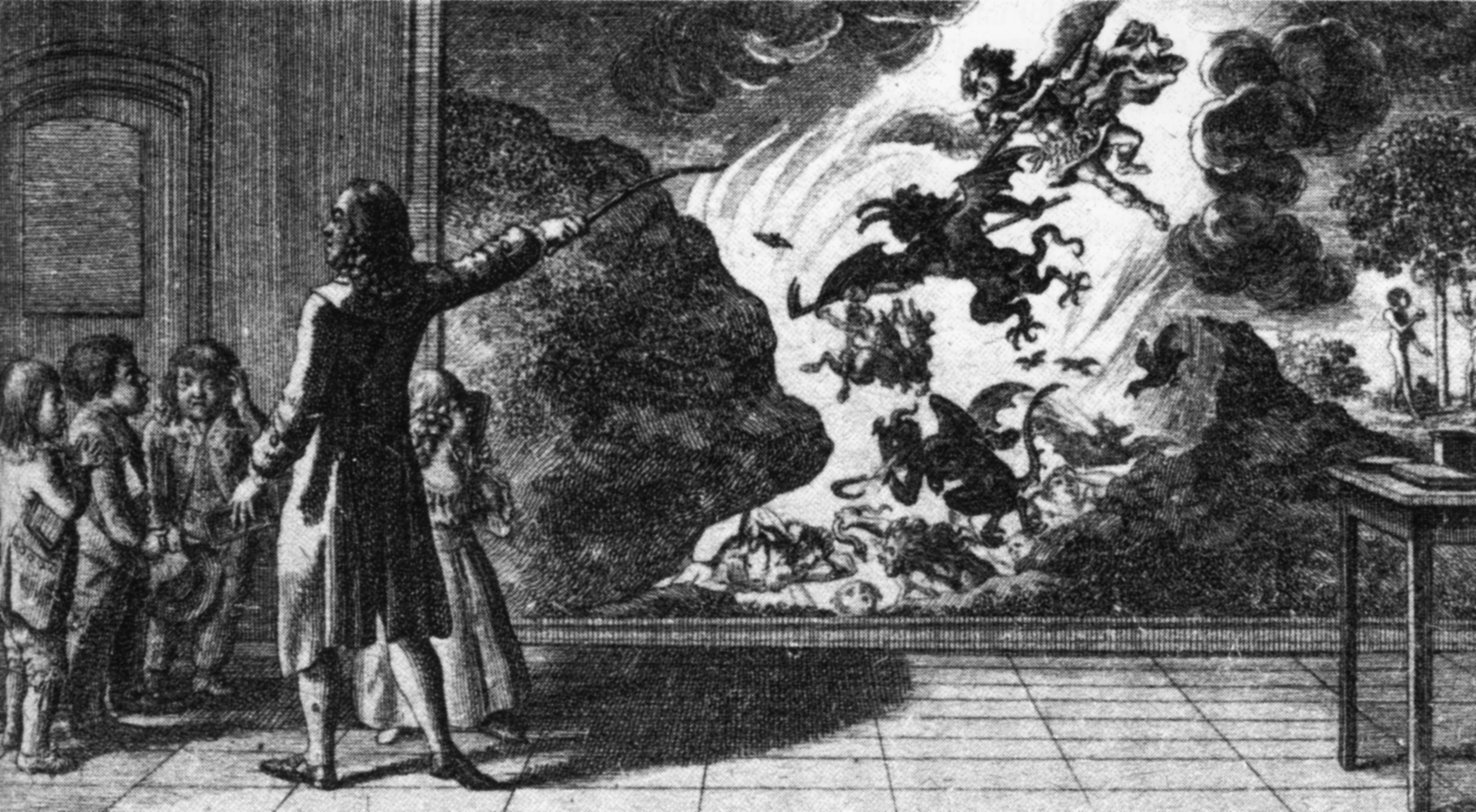 A teacher frightens his pupils by instructing them about devils. Engraving by Daniel Chodowiecki from Franz Heinrich Ziegenhagen, Lehre vom richtigen Verhältnis zu den Schöpfungswerken und die durch öffentliche Einführung desselben allein zu bewürkende algemeine Menschenbeglükkung(1792) (this picture is meant as an example for the negative way of educating children by fright and religious terror)